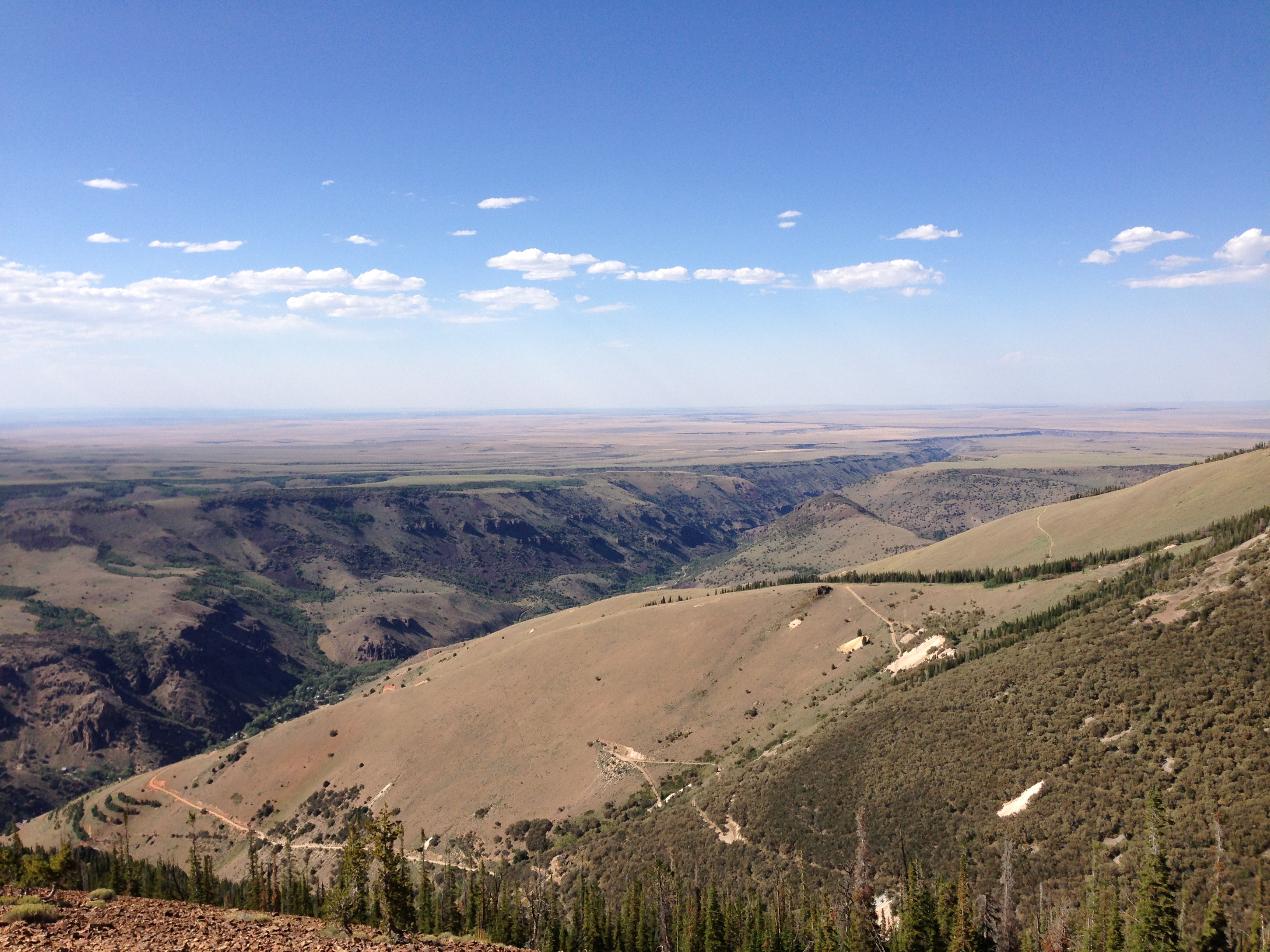 View north-northwest down the Jarbidge River Canyon from about 8700 feet on the northwestern slopes of Jarbidge Peak on August 15th 2013